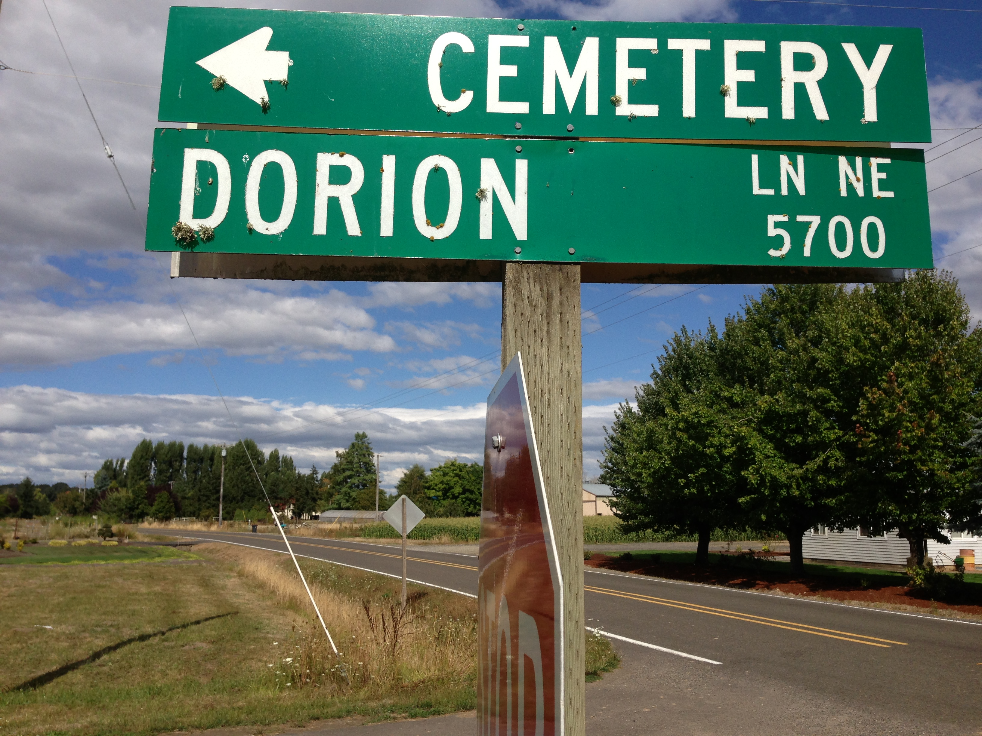 Dorion Lane in St. Louis, Oregon (Unfortunately, I misspelled the lane in the title.)